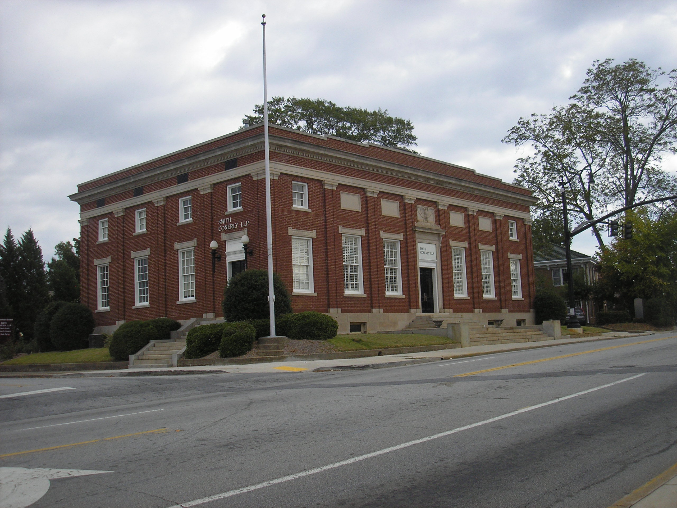 U.S. Post Office